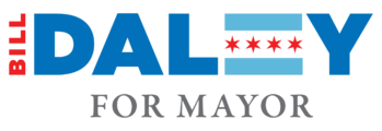 Bill Daley